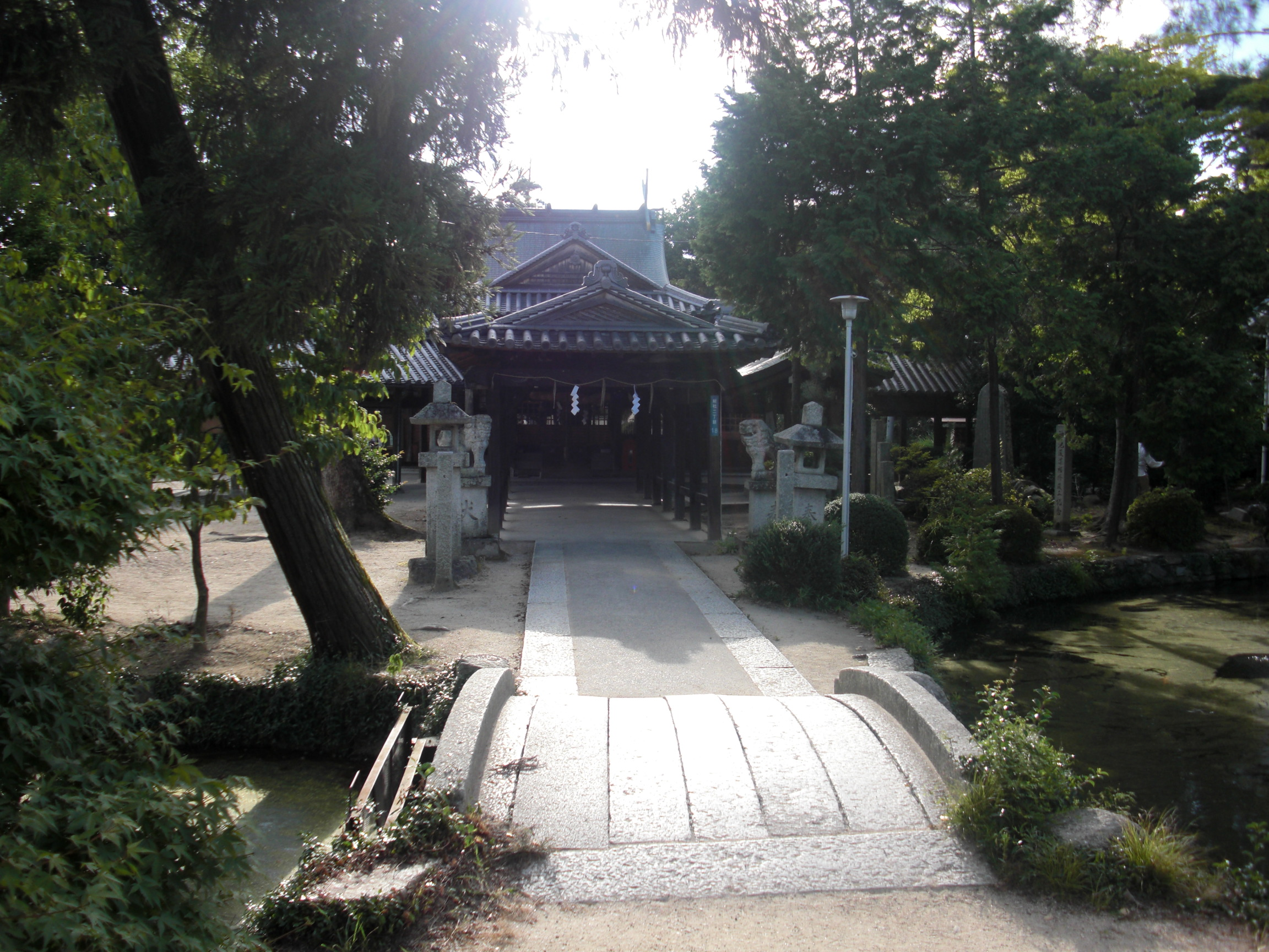 This is the shinto shrine "Soja", which is located in Soja, Okayama, Japan.